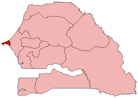 Map of Dakar region, Senegal.